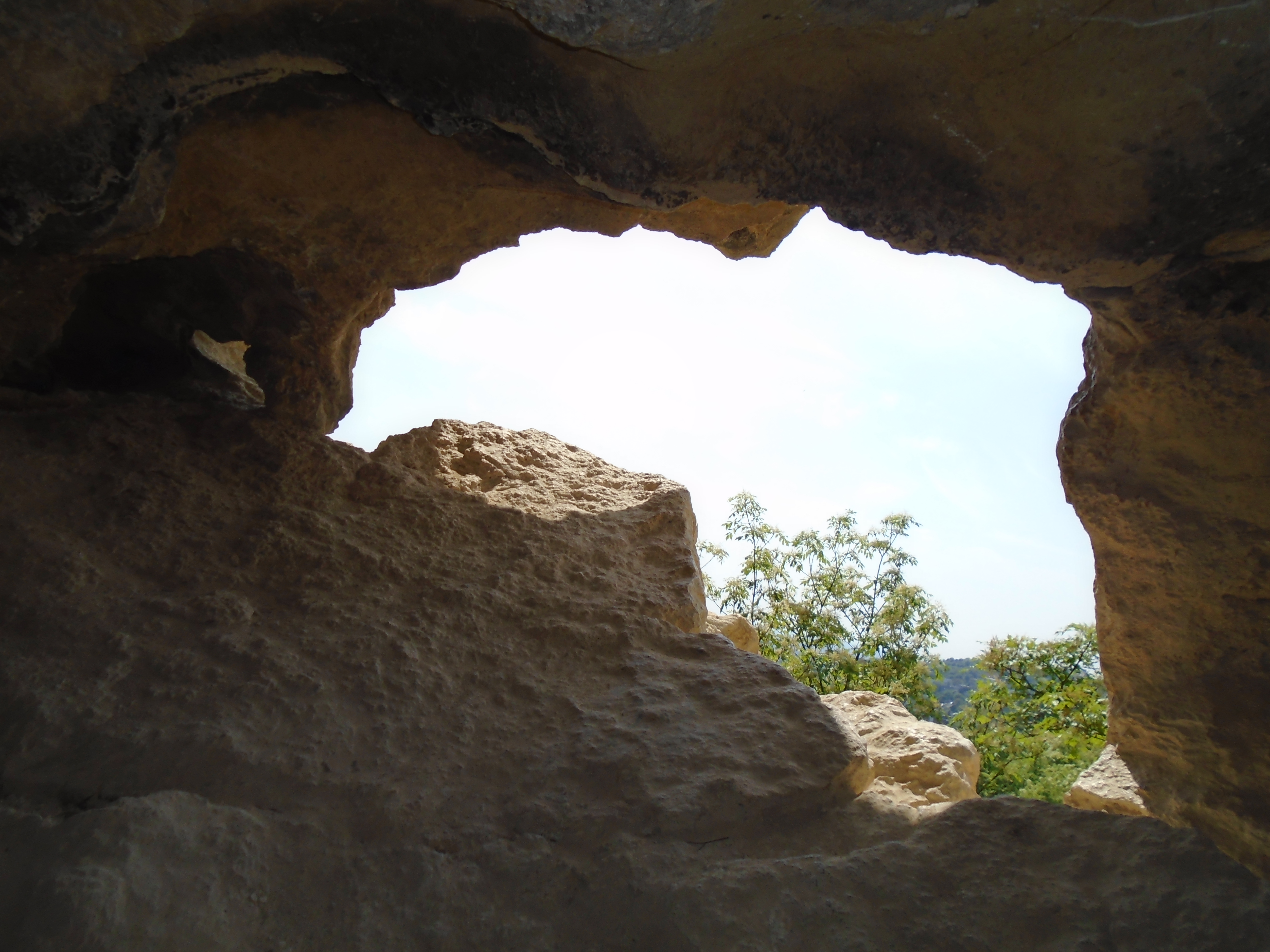 Entrance of Keleti quarry No 4 Cave.